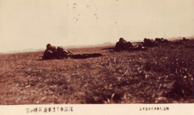 Imperial Japanese Army paratroopers in combat during the battle of Palembang, February 13, 1942.